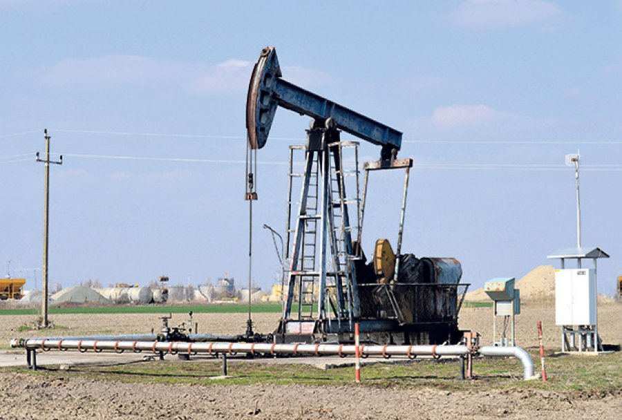 oil pump in Vojvodina